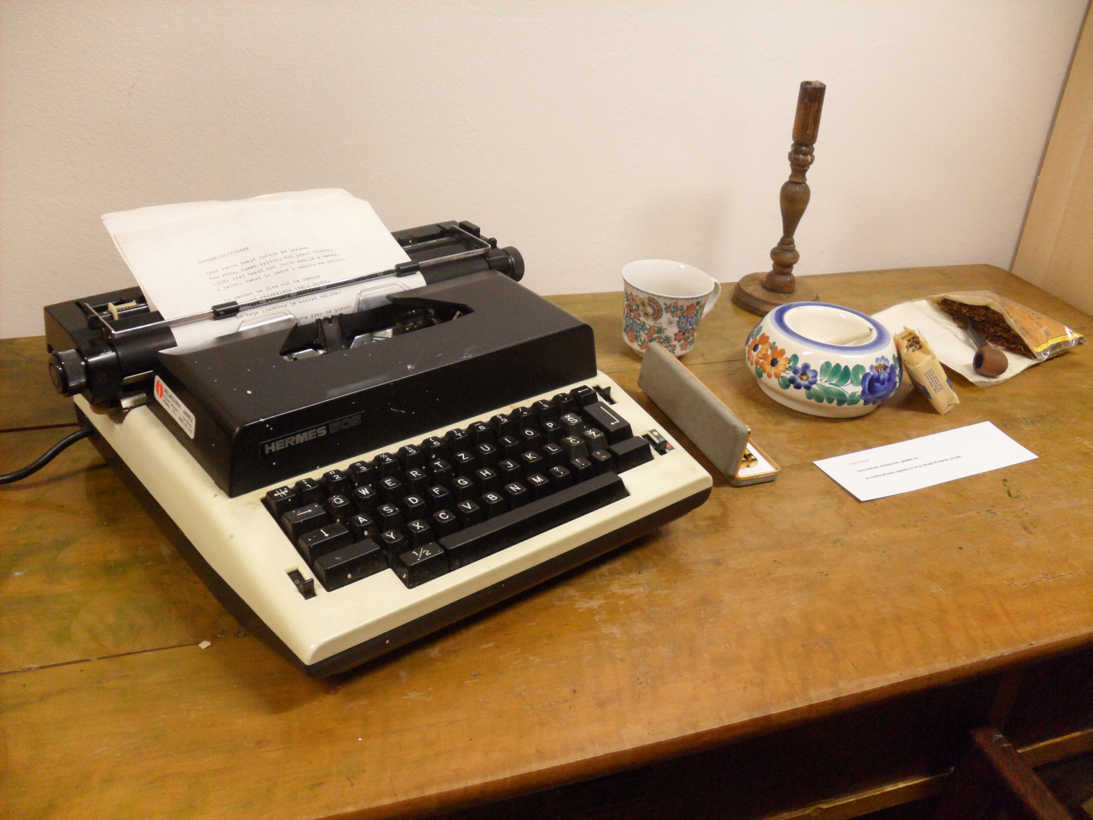 Electric Typewriter Hermes model 505 with 8859-2 character set (called Latin alphabet No. 2 or "Latin-2") generally intended for Central and Eastern European languages that are written in the Latin script.